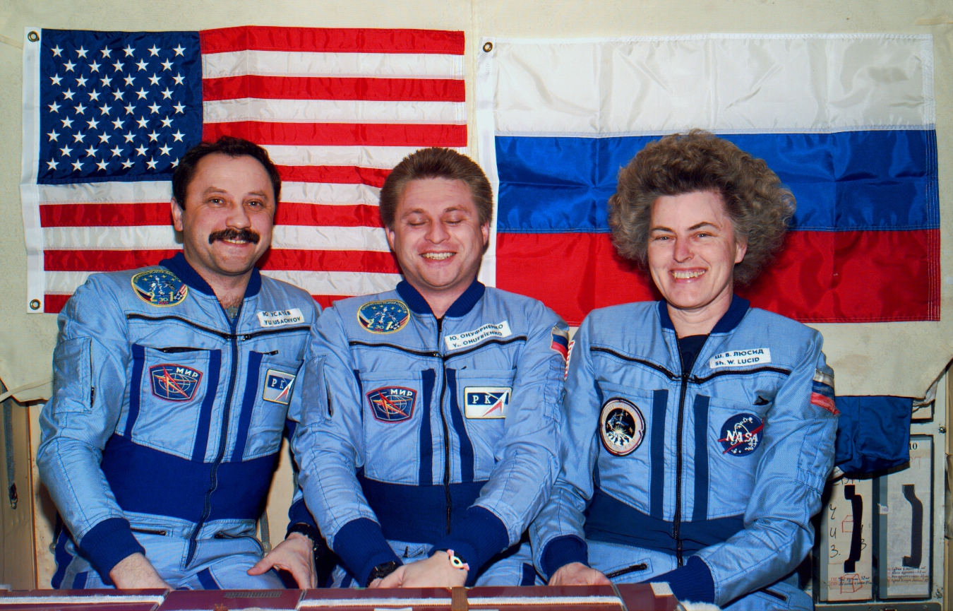 STS076-E-5199 (25 March 1996) — In the Base Block Module of Russia's Mir Space Station, Shannon W. Lucid joins the Mir EO-21 crew to begin the first leg of her five-month stay aboard Mir. At center is cosmonaut Yury I. Onufrienko, mission commander for Mir-21. The flight engineer is cosmonaut Yury V. Usachev. The image was recorded with an Electronic Still Camera (ESC) and later downlinked to flight controllers in Houston, Texas.